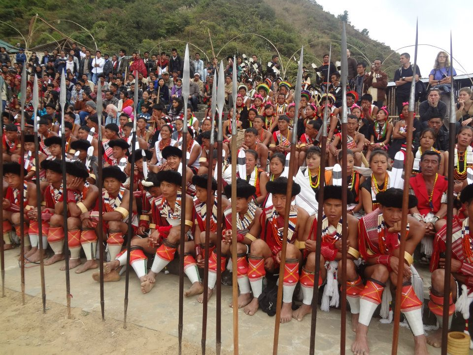 Hornbil Festival, Kohima